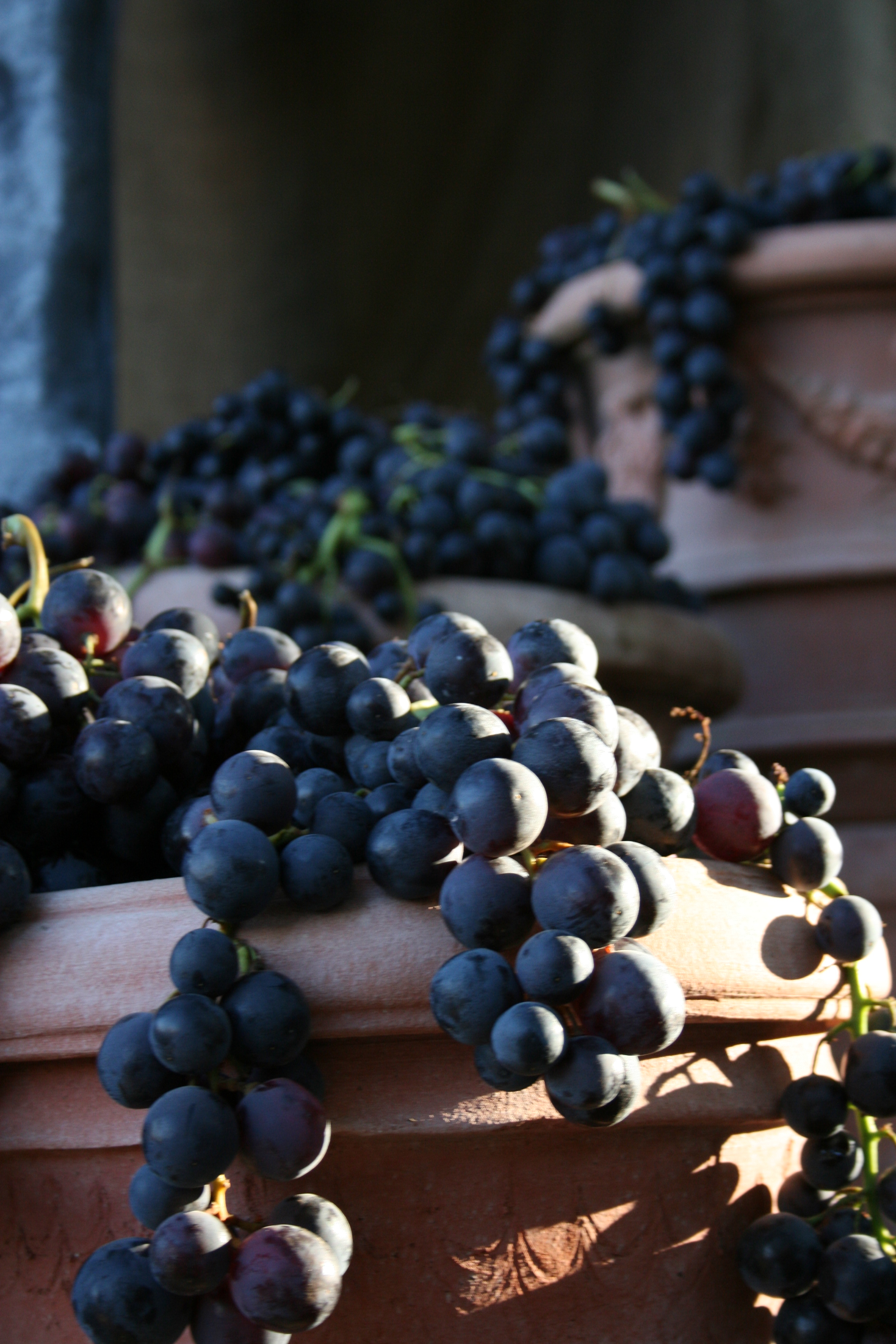 Grapefest in Impruneta - Italy